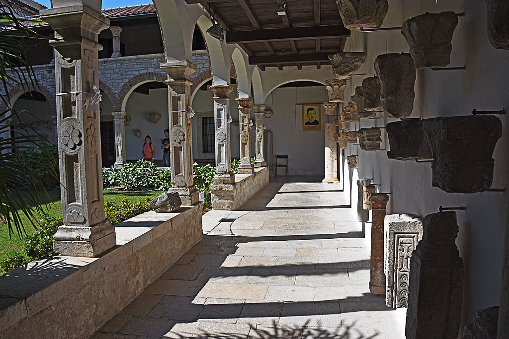 Franciscan monastery, lapidarium, Pula